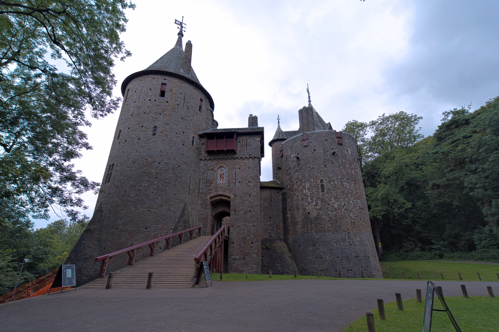 Castell Coch (HDR)